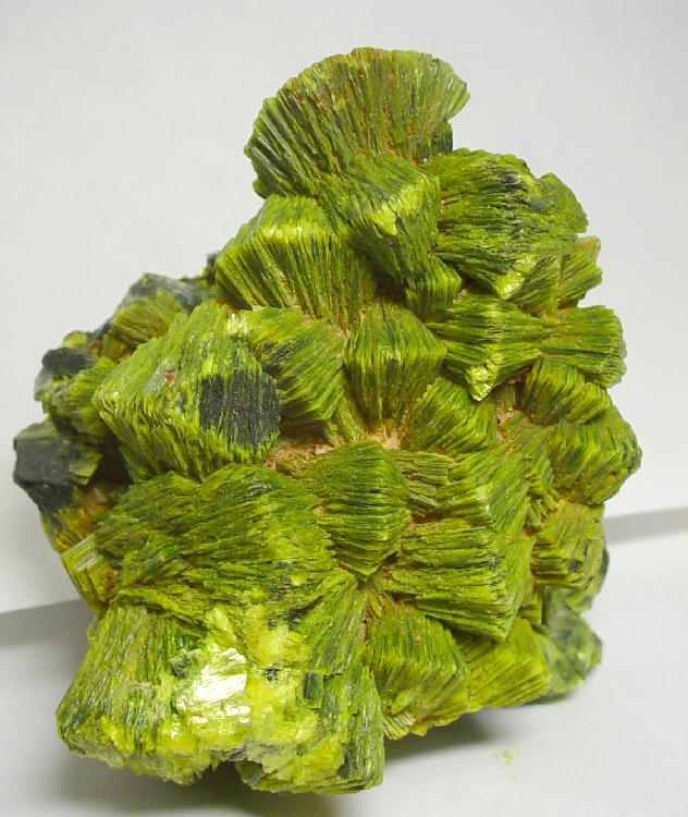 Autunite Locality: Daybreak Mine (Dahl lease), Mount Kit Carson, Spokane County, Washington, USA (Locality at ) A rich specimen of solid autunite, colored a bright green-yellow. The crystals are of the form of thick wheatsheaves representative of the best specimens from this classic mine, and not found in this quality for decades. This piece, in fact, is a proven oldtimer as it has a label from New York dealer Hugh Ford that is probably from around the mid-1900's. Note the value put on it by this respected old dealer, which was a lot of money for the time and surely a sign of his opinion that it is a remarkable large specimen! Commensurate with its age, it has a bit of damage in the form of minute yellow spots on the otherwise yellow-green crystals (plus some contact at the base), and while this affects the price (which otherwise would be $2000-plus), it does not detract visually very much. The piece can be stood vertically as I prefer (top row) with wheatsheaves sticking up, or horizontally as shown in the bottom row. 6.5 x 5.5 x 4 cm